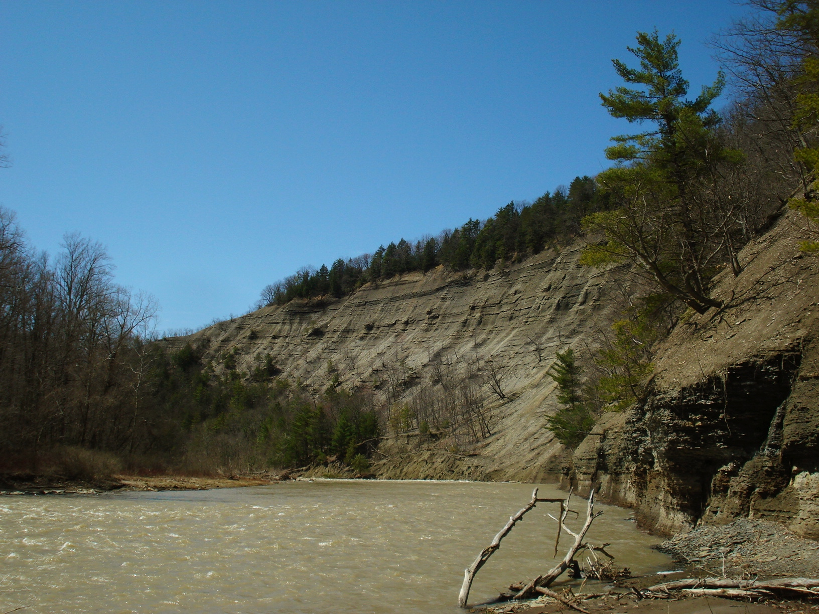 Cattaraugus Creek flowing through the steep gorge cliffs of the Zoar Valley Multiple Use Area